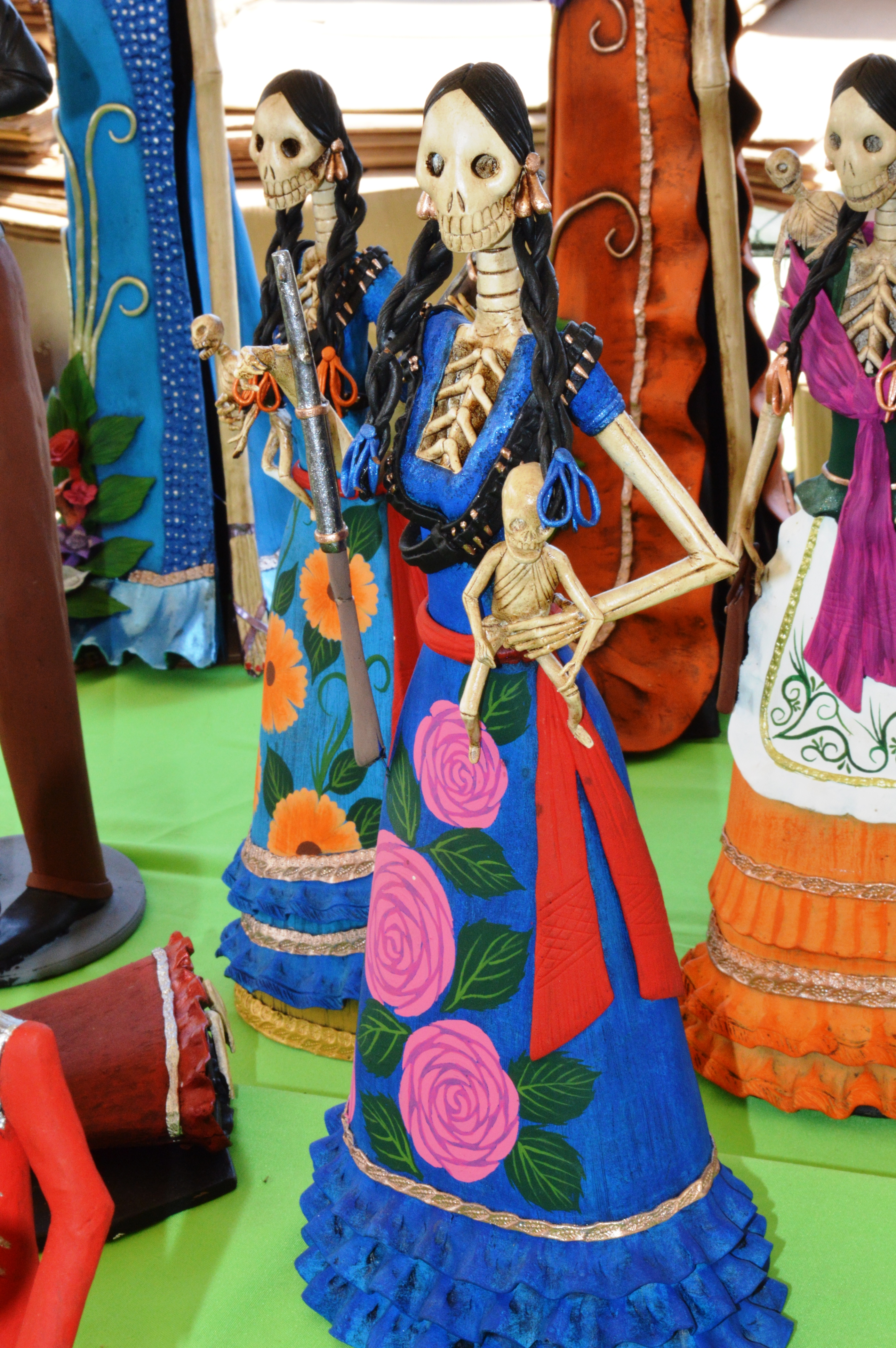 Catrina figure by Michoacan artisan Emilio Barocio Yacobo at the 2015 Feria de los Maestros del Arte in Chapala, Jalisco